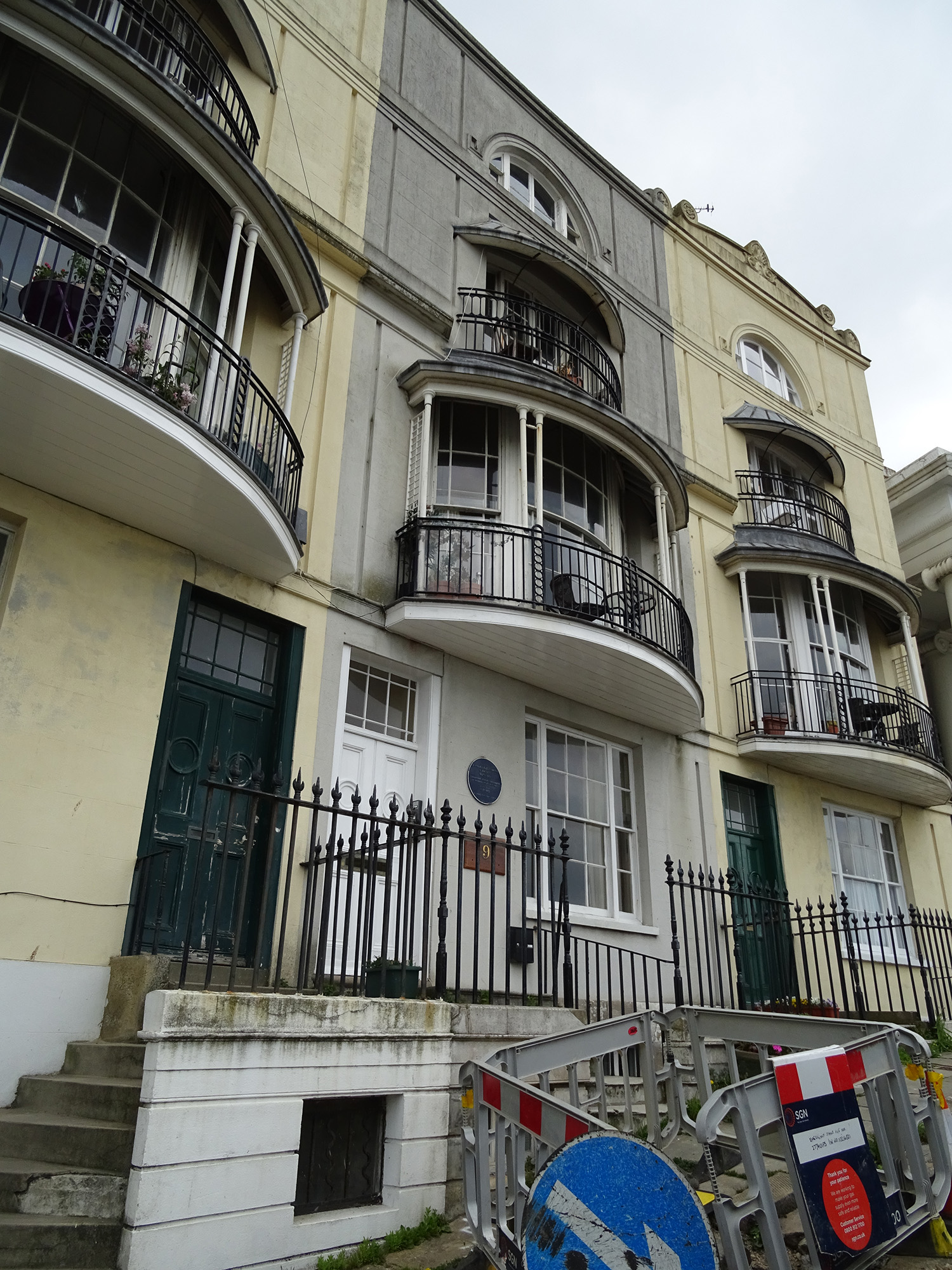 Barbara Leigh Smith Bodichon 1827 - 1891 Educational pioneer, campaigner for women's rights and artist Lived here 1836 - 1853 - 9 Pelham Crescent, Hastings, East Sussex TN34 3AF